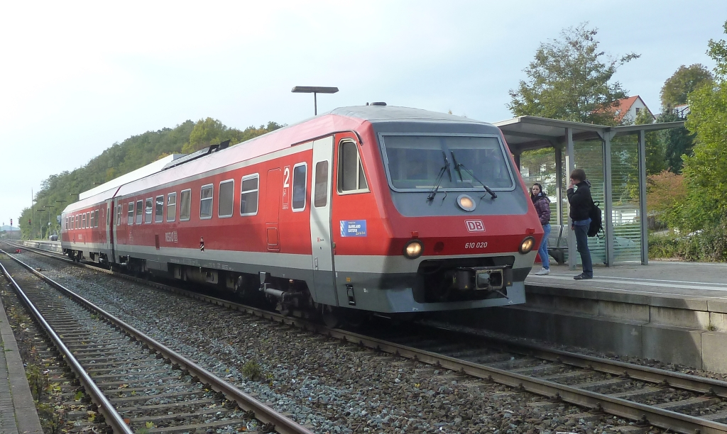 German Diesel multiple unit 610 020 in Hersbruck, Germany